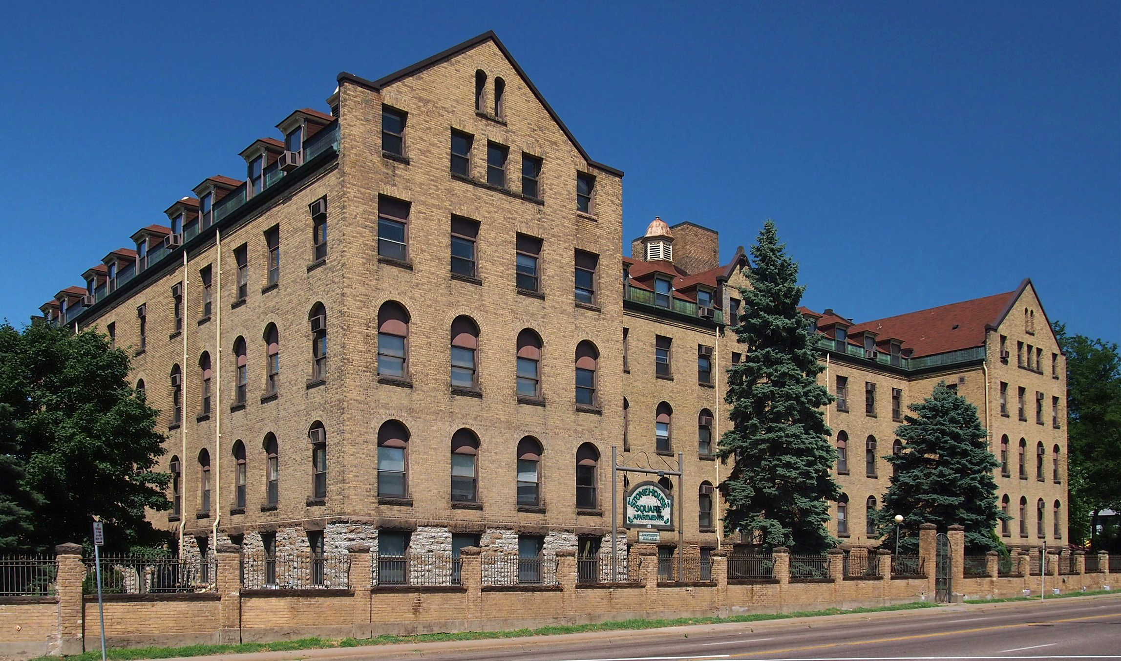 Little Sisters of the Poor Home for the Aged (now Stonehouse Square Apartments), 215 Broadway Ave NE, Minneapolis, Minnesota, USA. Viewed from the southwest.